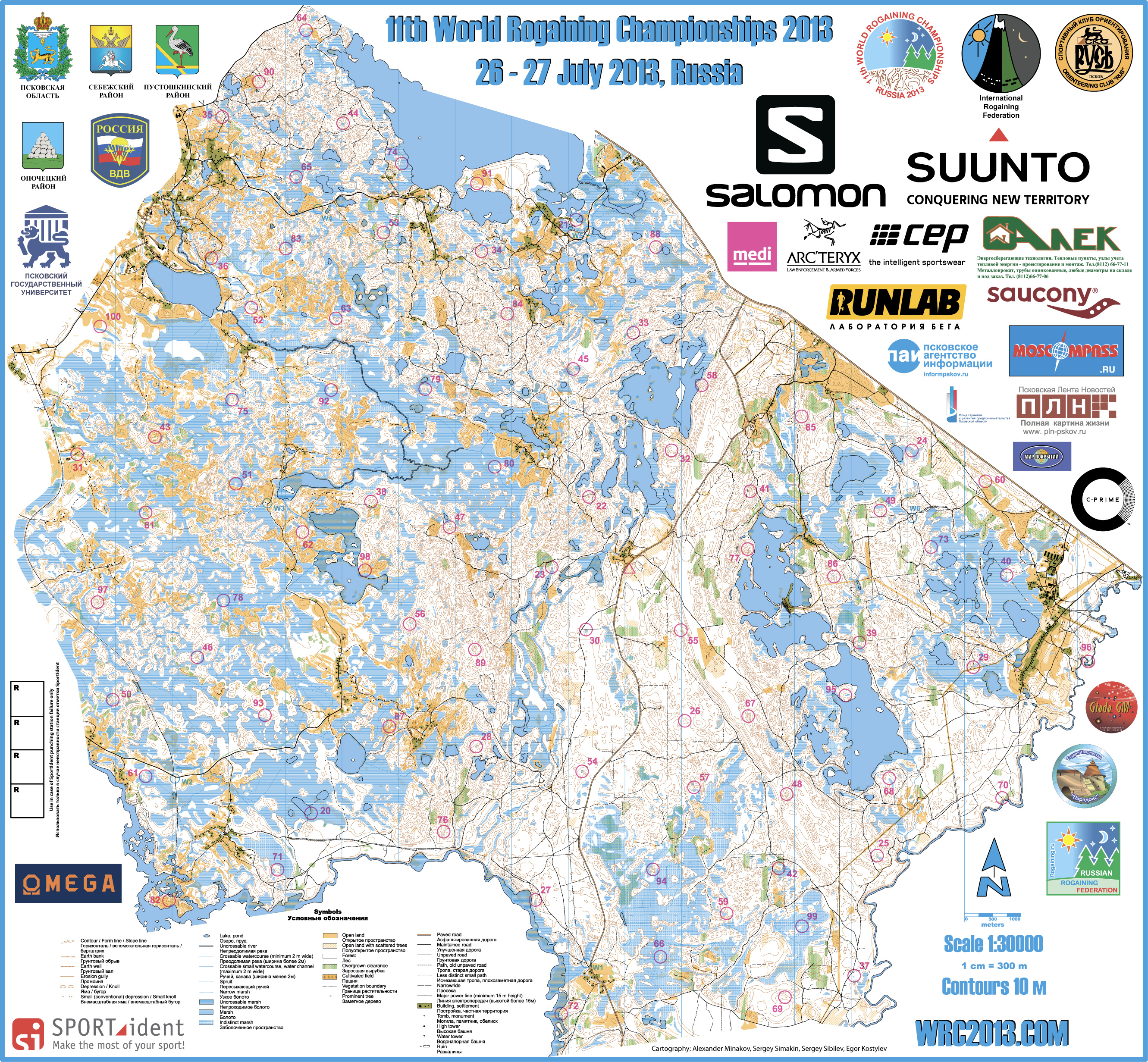 Map of the 11th World Rogaining Championships 2013 (26 - 27 July 2013, Pskov Oblast, Russia)